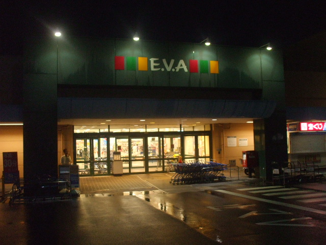 Eva Shopping Center (Midnight)